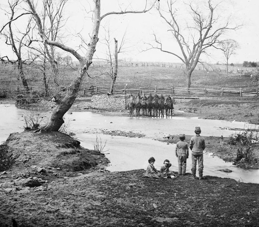 Photo of Federal Cavalry at Sudley Springs after the First Battle of Bull Run. Library of Congress